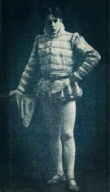 Gabriel de Gravone in Un drame sous Philippe II, Théâtre royal du Parc, Bruxelles